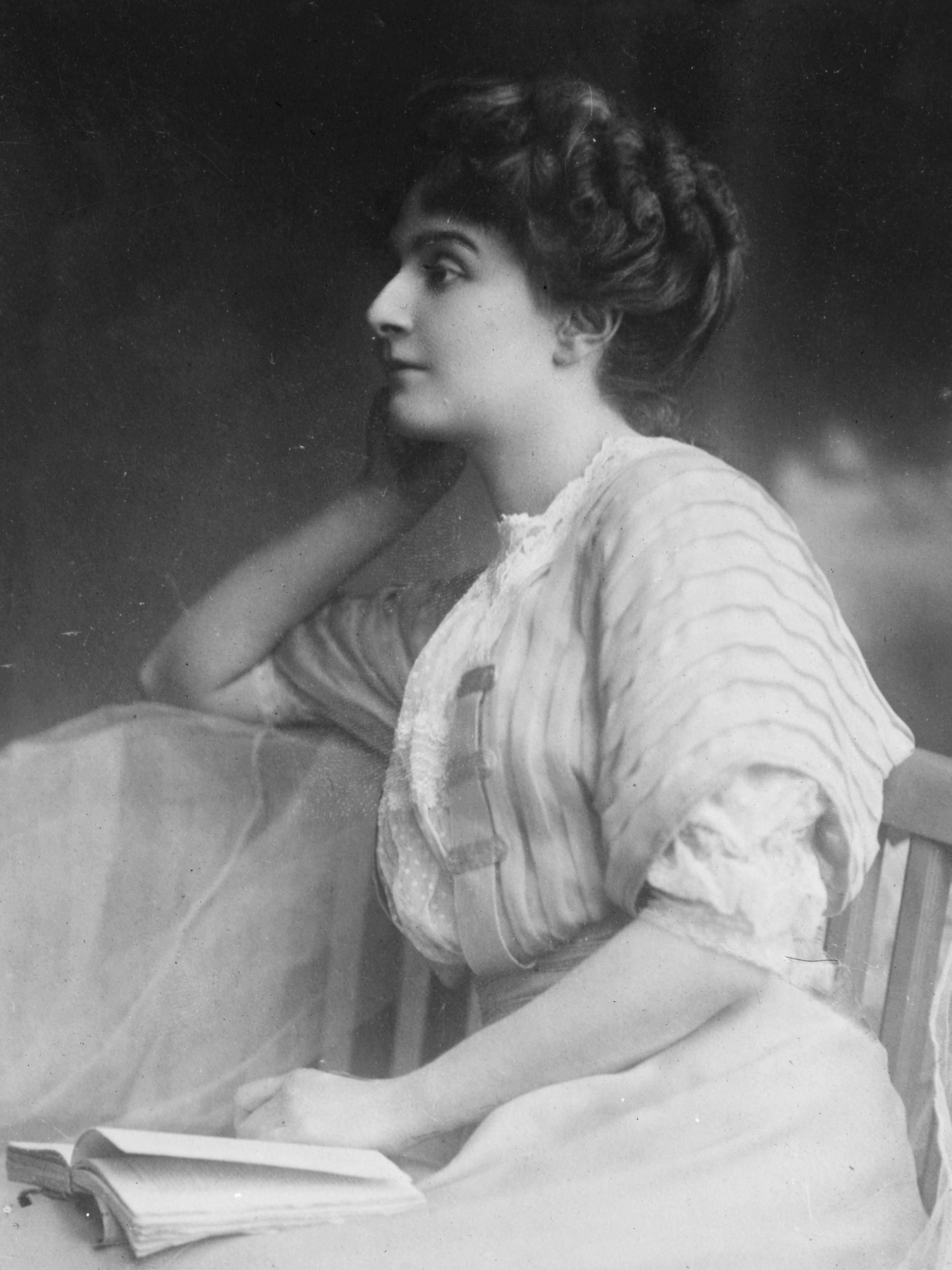 LA PRINCESSE MARIE WAS A DAUGHTER OF ROLAND BONAPARTE AND MARIE BLANC. MARIE WAS A SUITOR AND DISCIPLE OF SIGMUND FREUD AND HIS THEORIES. SHE HAD A VERY LONG LIFE.